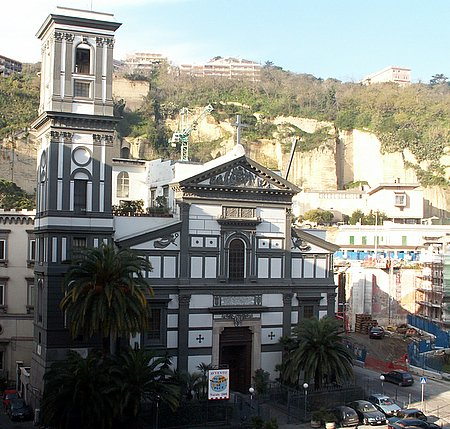 Personal photo that I took myself.